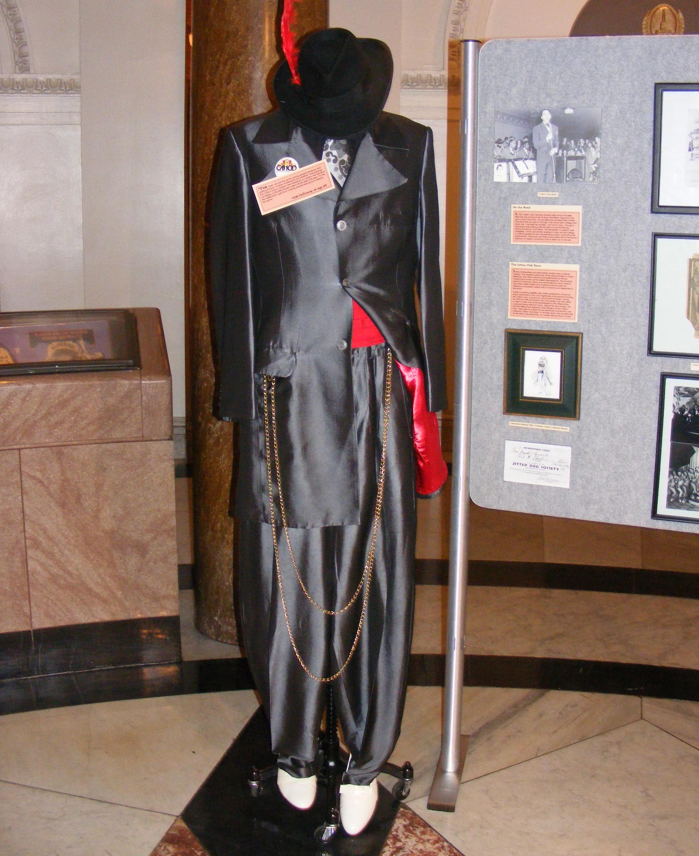 I took this picture. Baltimore City hall. October, 2007